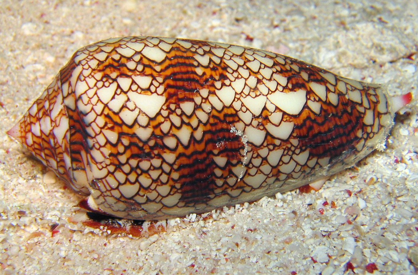 Gastropod mollusc Conus textile, bearing a pattern resembling Rule 30, a chaotic cellular automaton